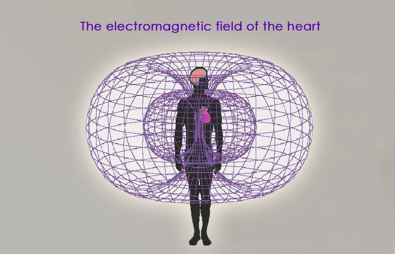 Magnetic field of the human heart